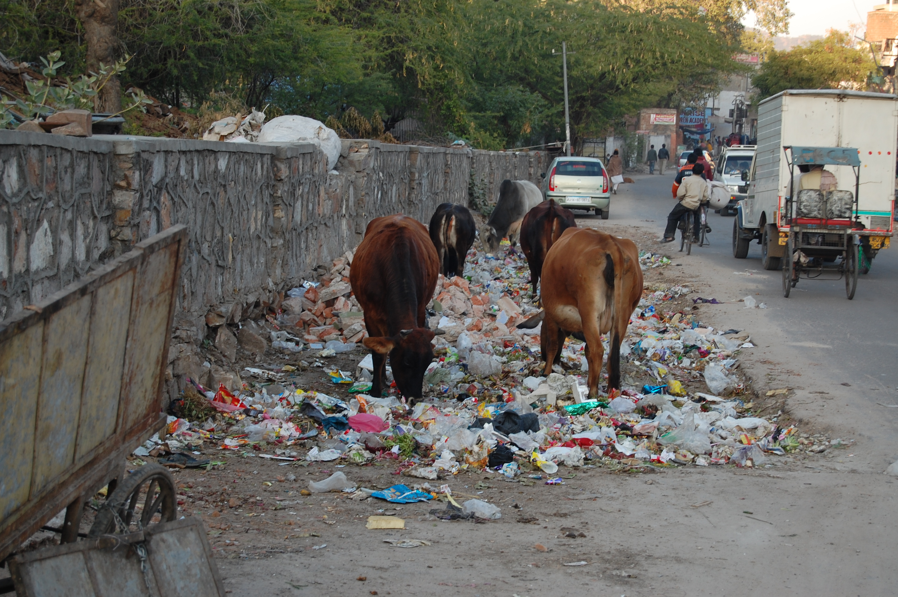 Cows eating trash, Jaipur, India.